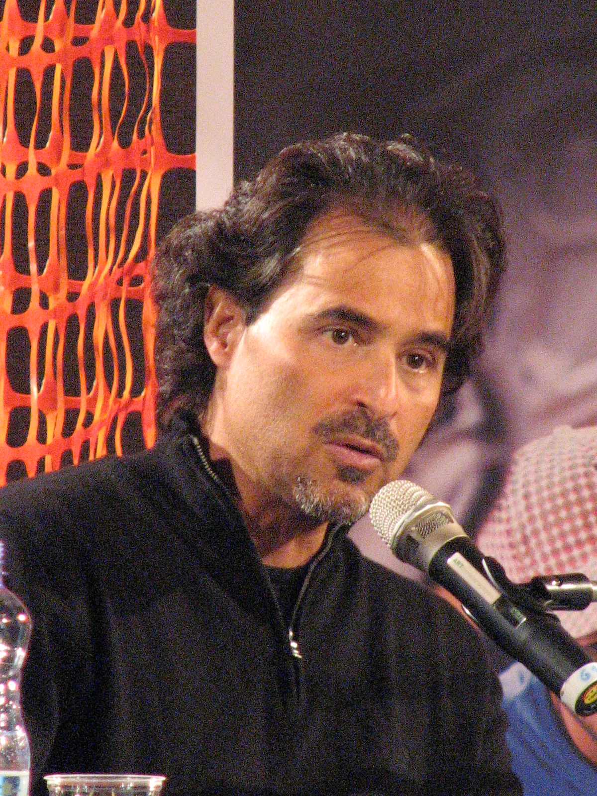 José Eduardo Agualusa performing in literature festival HeadReadLëtzebuergesch: Den angolanesche Schrëftsteller José Eduardo Agualusa um Literaturfestival HeadRead